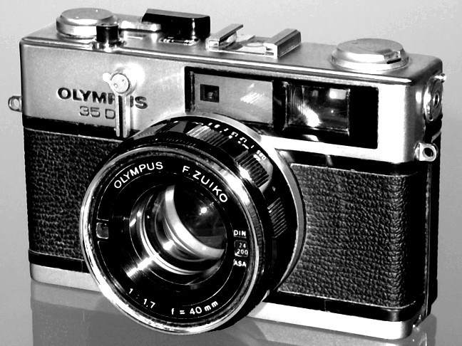 Olympus 35 DC 1971